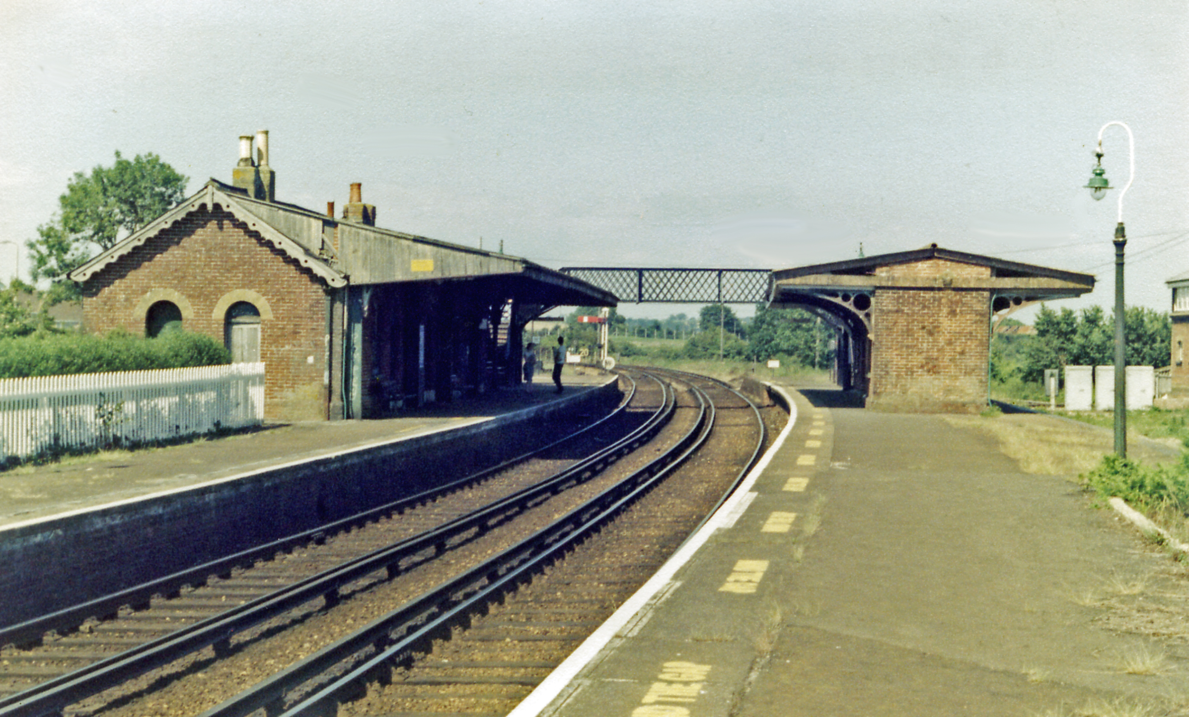 Brading station, 1985. View northward, towards Ryde (and Bembridge): ex-Isle of Wight Railway Ryde Pierhead - Ventnor line, closed 18/4/66 beyond Shanklin and the rest electrified and worked with redundant London Underground trains. Until 21/9/53 a branch ran from a bay on the Down side to Bembridge.